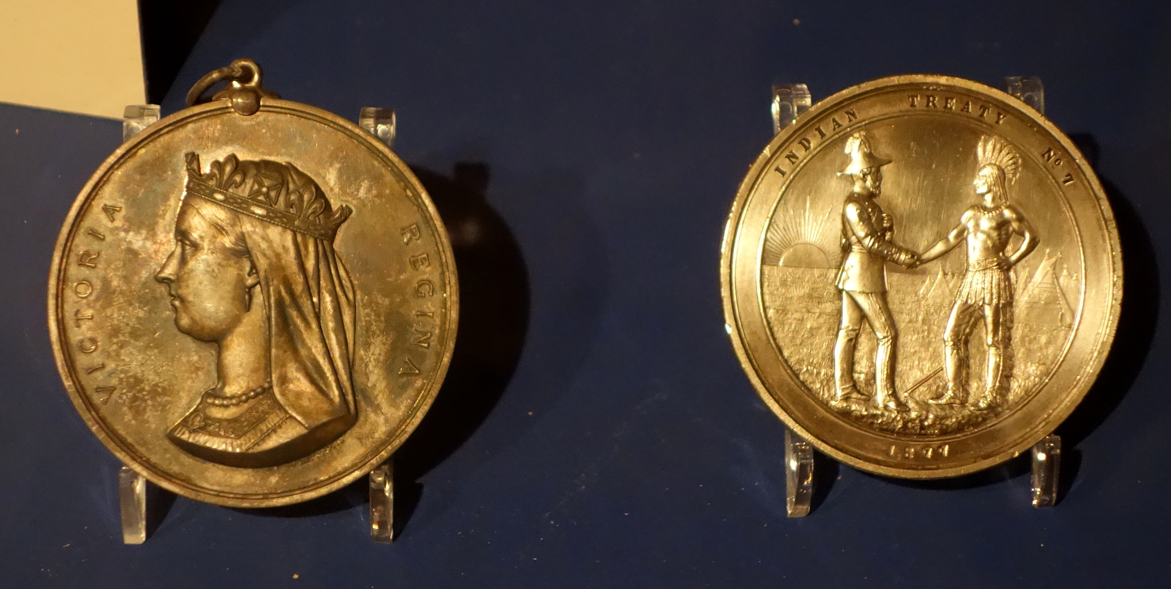 Exhibit in the Glenbow Museum, 130 9th Ave S.E., Calgary, Alberta, Canada. This work is old enough so that it is in the public domain.